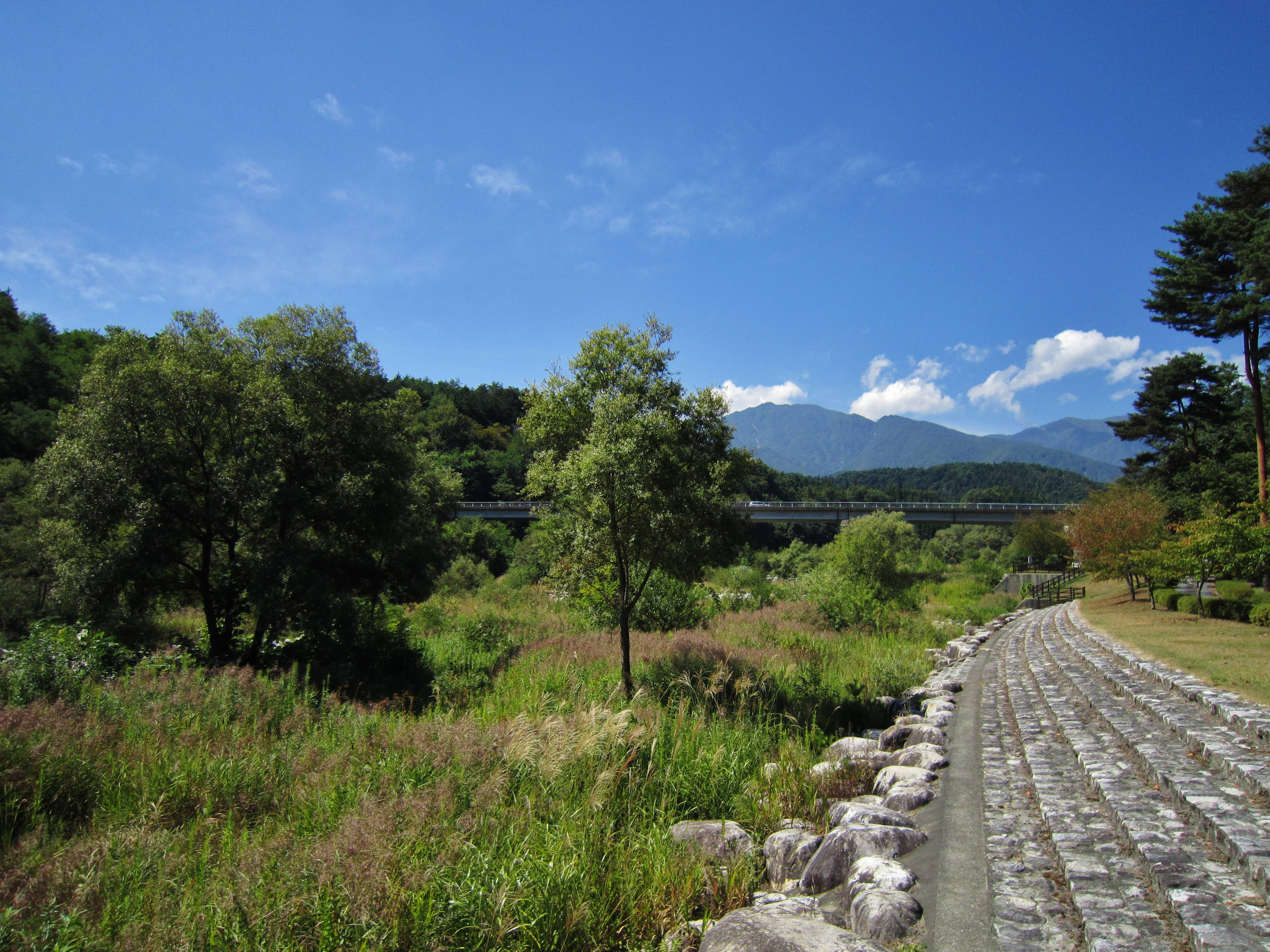 Yotagiri River.